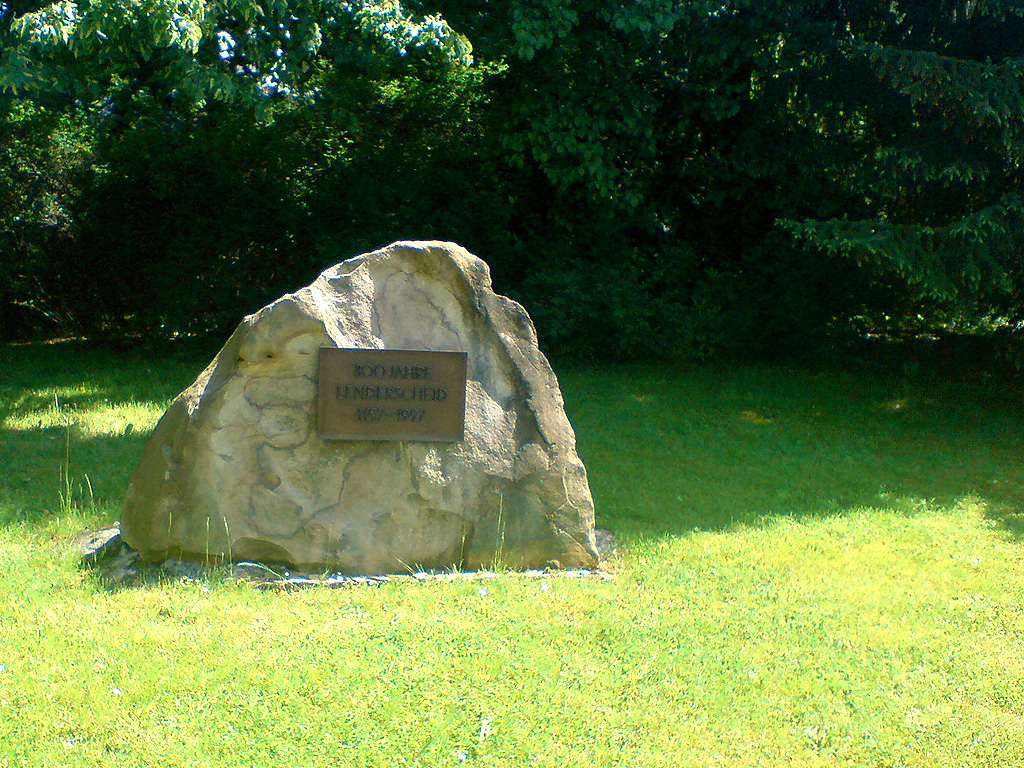 Memorial stone 800 years of Lenderscheid